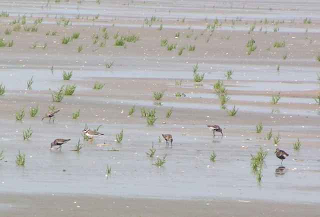 Calidris alpina at Waddensea Nationalpark Schleswig-Holstein (Germany) Author: M.Buschmann